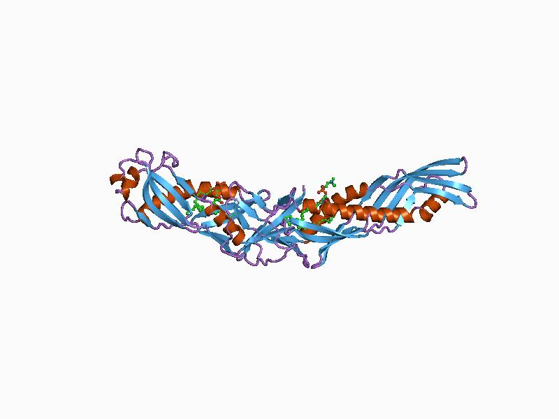 Cartoon representation of the molecular structure of protein registered with 1bp1 code.